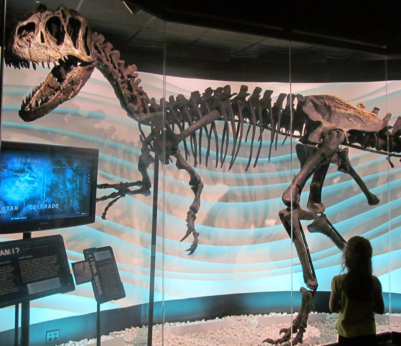 A restored Allosaurus skeleton called "Ebenezer" on display at the Creation Museum in Petersburg, Kentucky